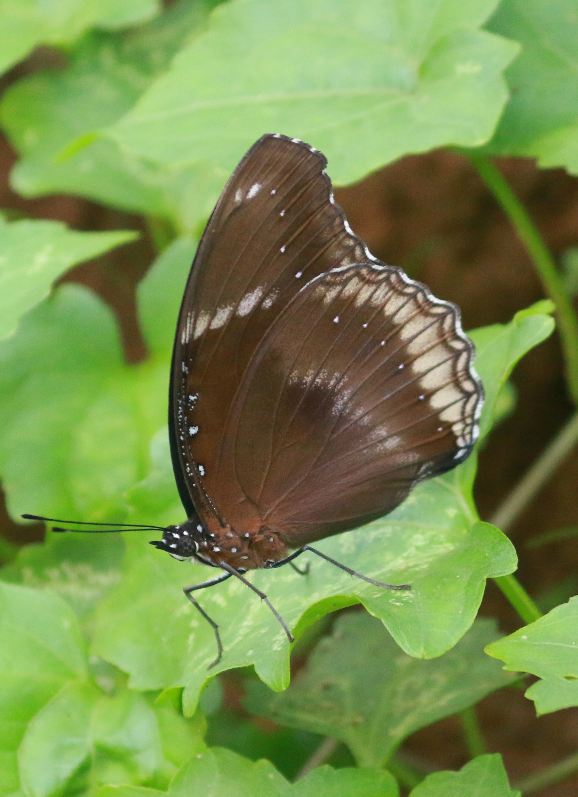 Hypolimnas bolina, great eggfly